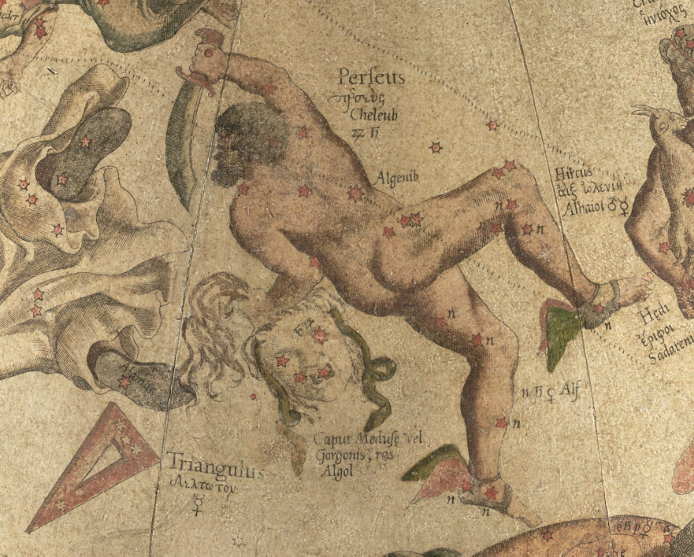 Perseus and Triangulum constellations from the Mercator celestial globe.